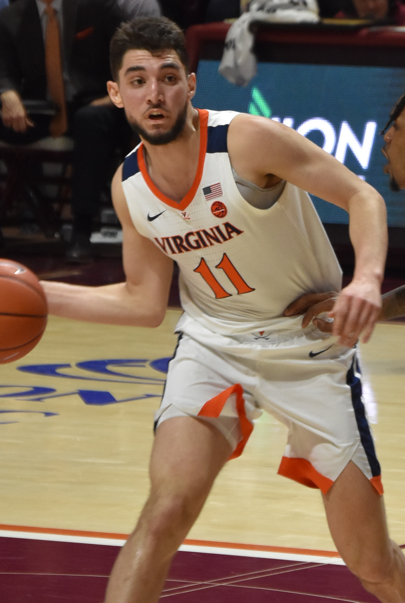 Ty Jerome Handles the ball for the Cavaliers as Ahmed Hill defends